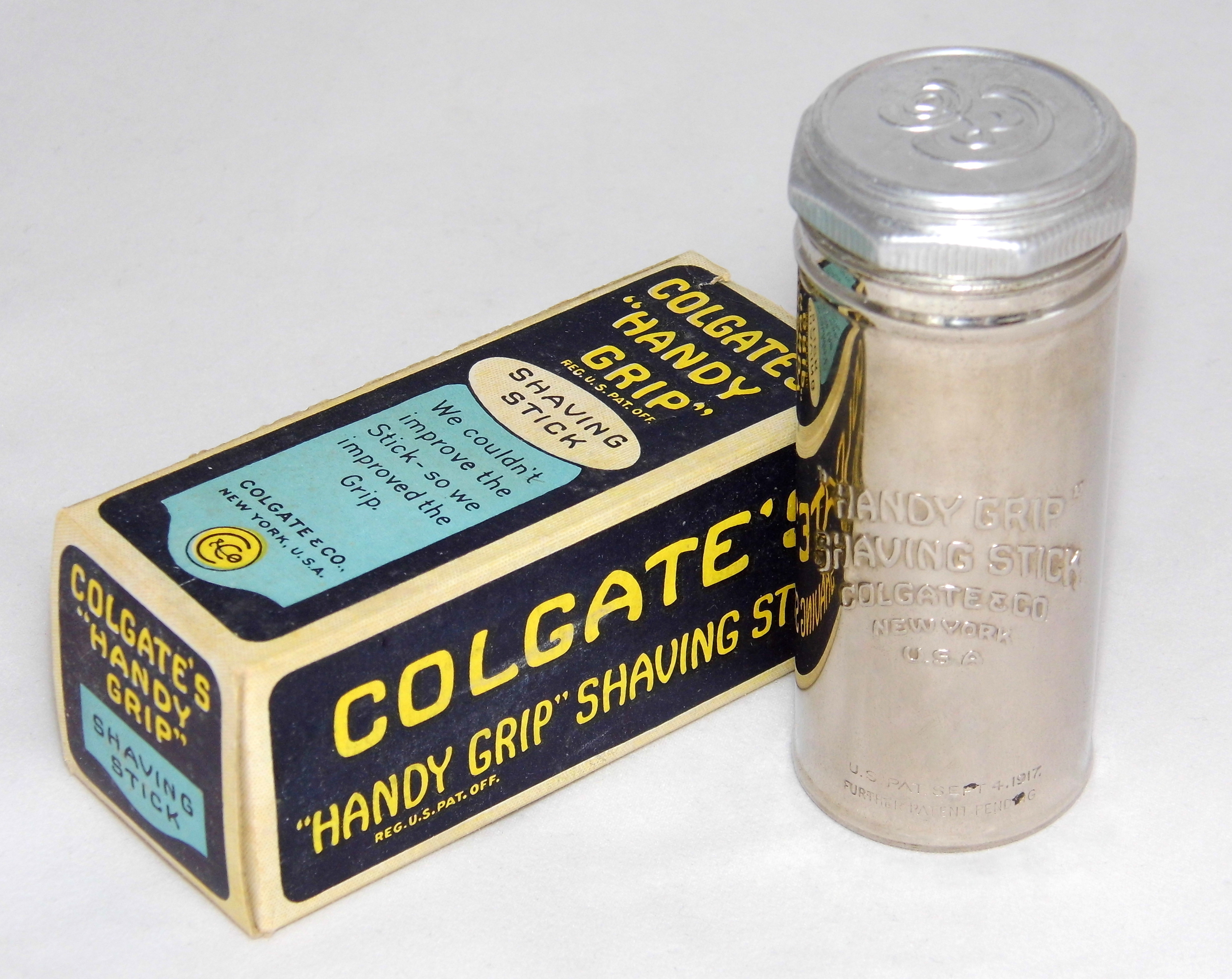 Colgate "Handy Grip" shaving stick, made In USA, circa 1930s.